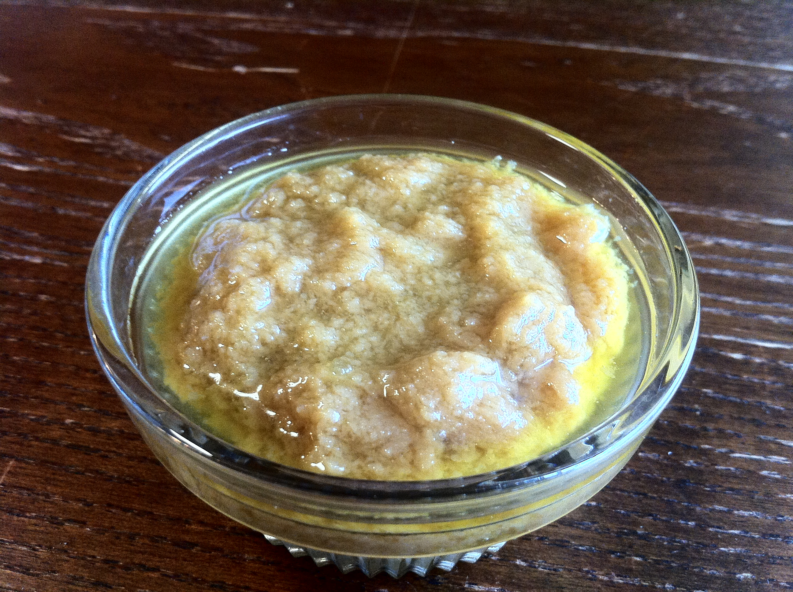 3-4 whole bulbs of garlic, peeled and separated into cloves, barely covered with olive oil in a shallow baking dish, roasted at 300F for about 45 mins or so, cooled and then blended with just a pinch of salt. Put it on/in everything. BONUS - very kid-friendly in our test kitches, they all asked for more!